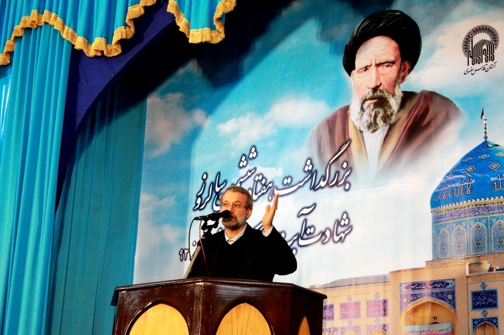 December 2,2013 - Ali Larijani in Kashmar